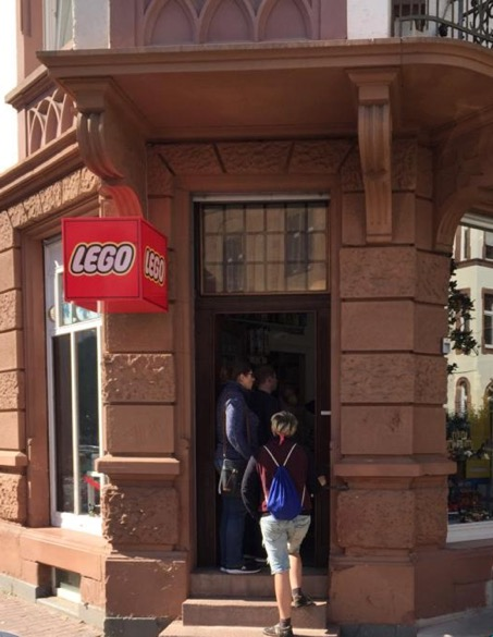 Entrance of "Held der Steine" shop in Frankfurt